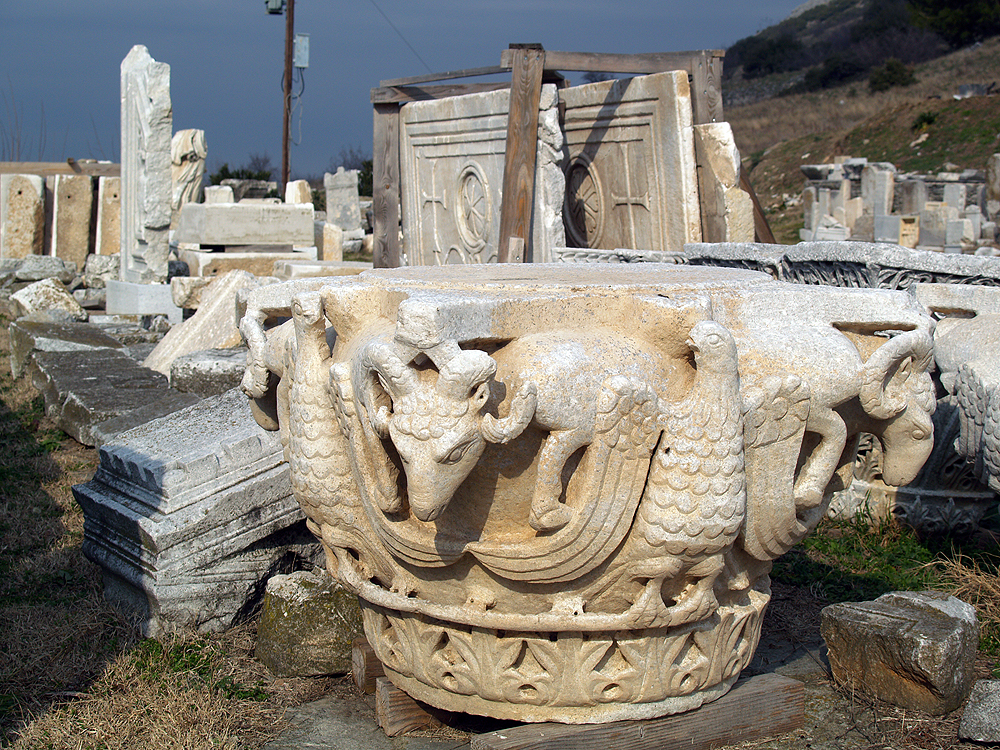 Philippi Museum Artifacts